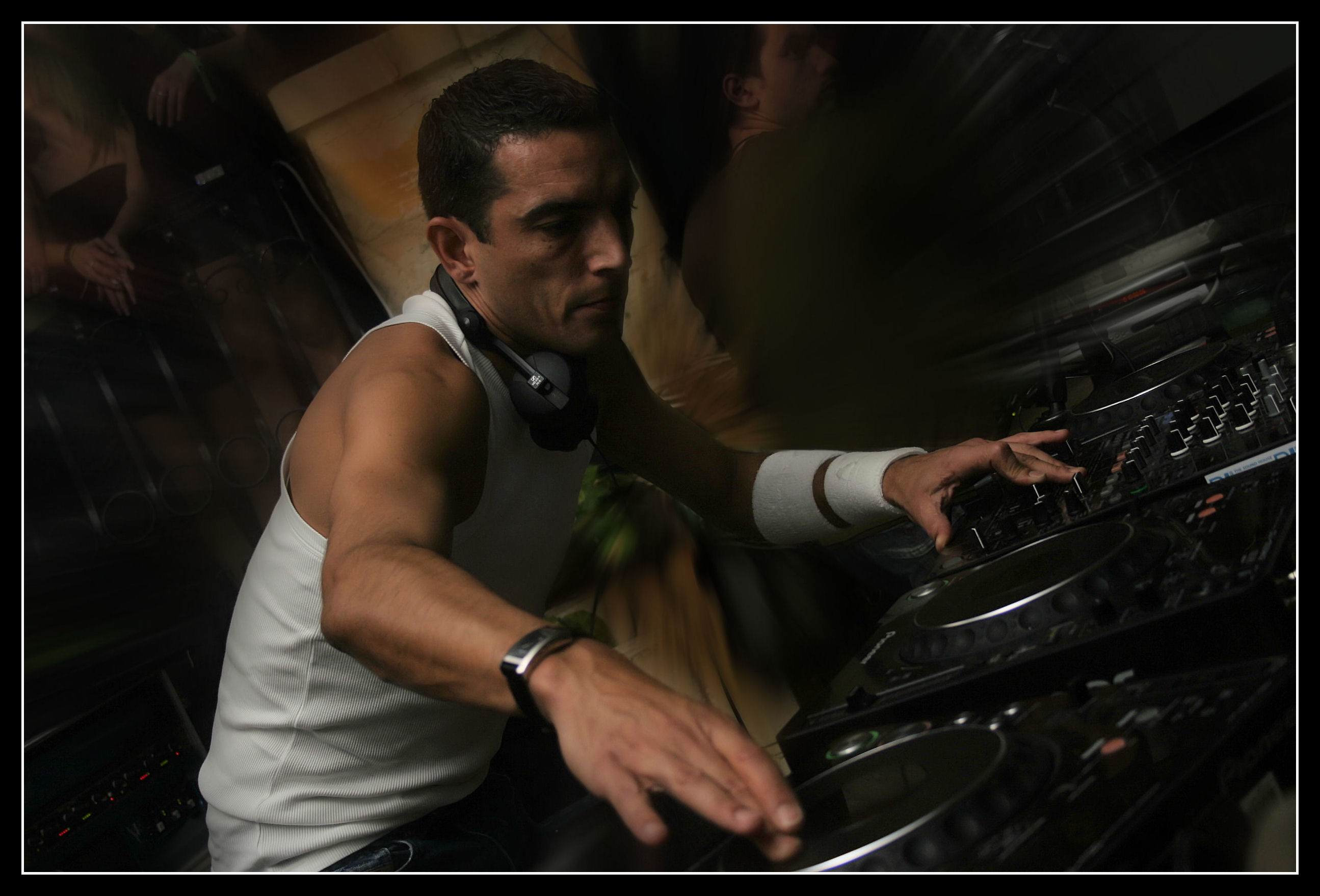 This is Antoine Clamaran performing live in Malta!